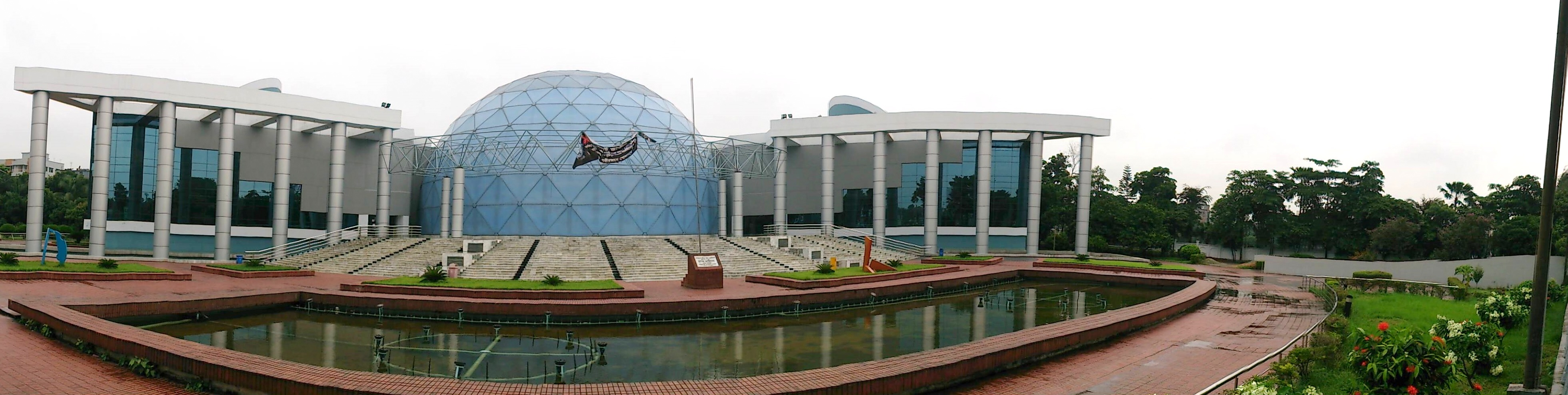 Bangabandhu Sheikh Mujibur Rahman Novo Theatre, Dhaka.